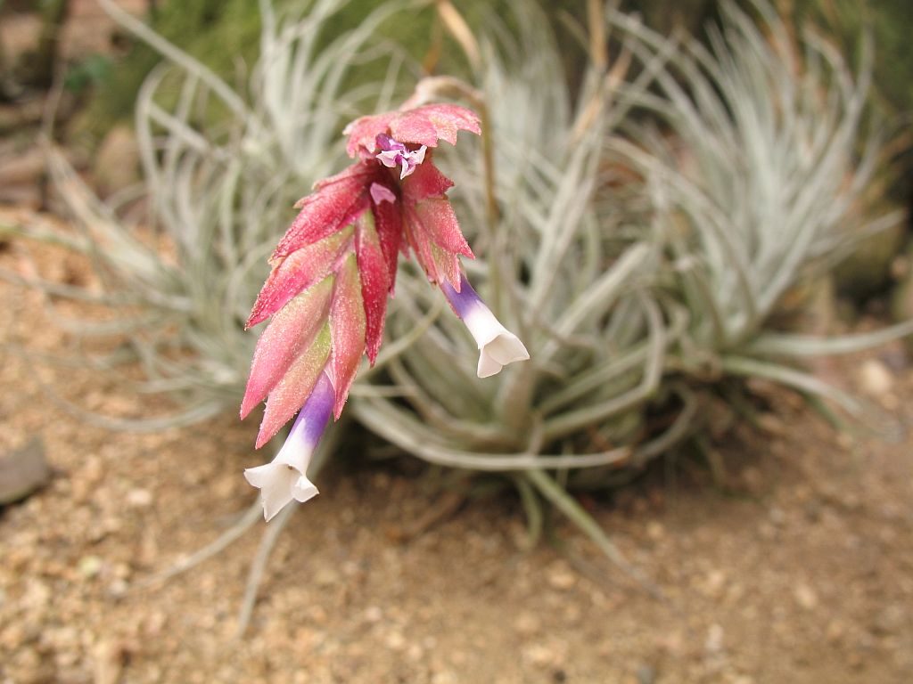 Tillandsia oblivata in cultivation at the Botanical Garden of Heidelberg, Germany.